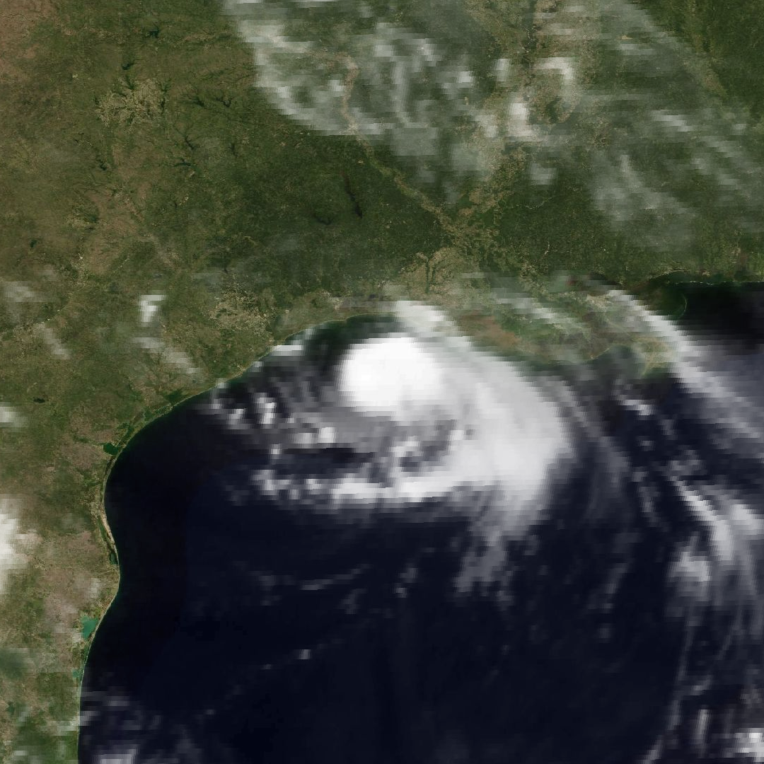 Hurricane Bonnie at peak intensity off the coast of Texas early on June 26, 1986